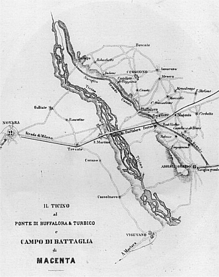 The Battle of Magenta in a map dated 1859